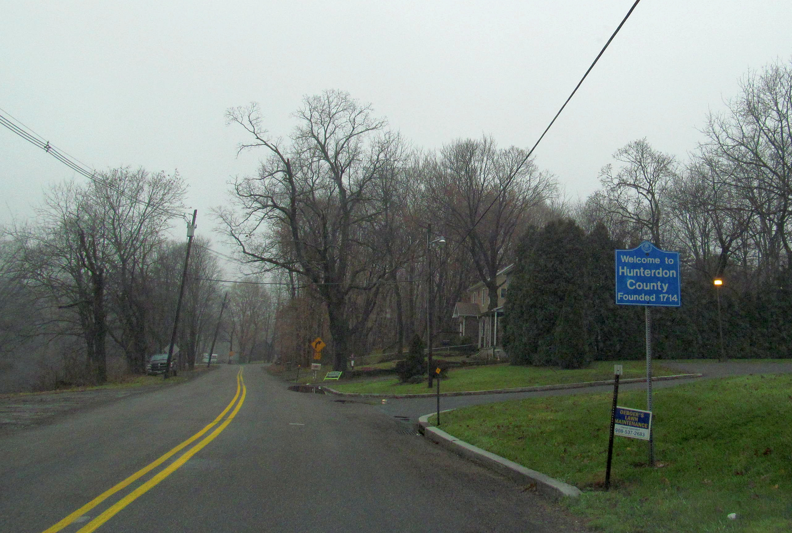 Entering Hunterdon County along Route 643